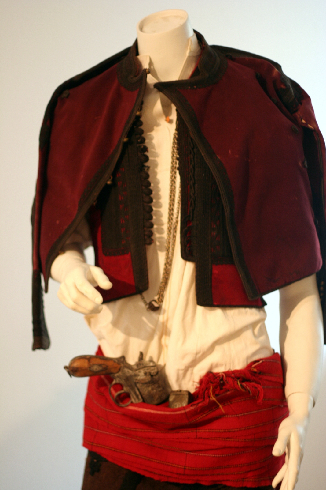 Veshje Tradicionale - Drenicë